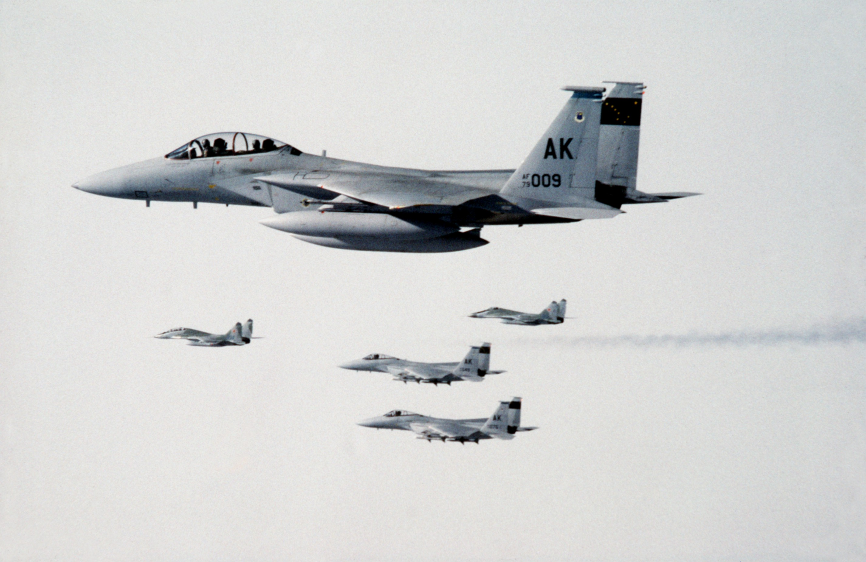 U.S. Air Force McDonnell Douglas F-15C/D Eagle aircraft of the 21st Tactical Fighter Wing escort two Soviet MiG-29 aircraft to Elmendorf Air Force Base, Alaska (USA), where they were refueled before continuing their flight to an air show in British Columbia (Canada).